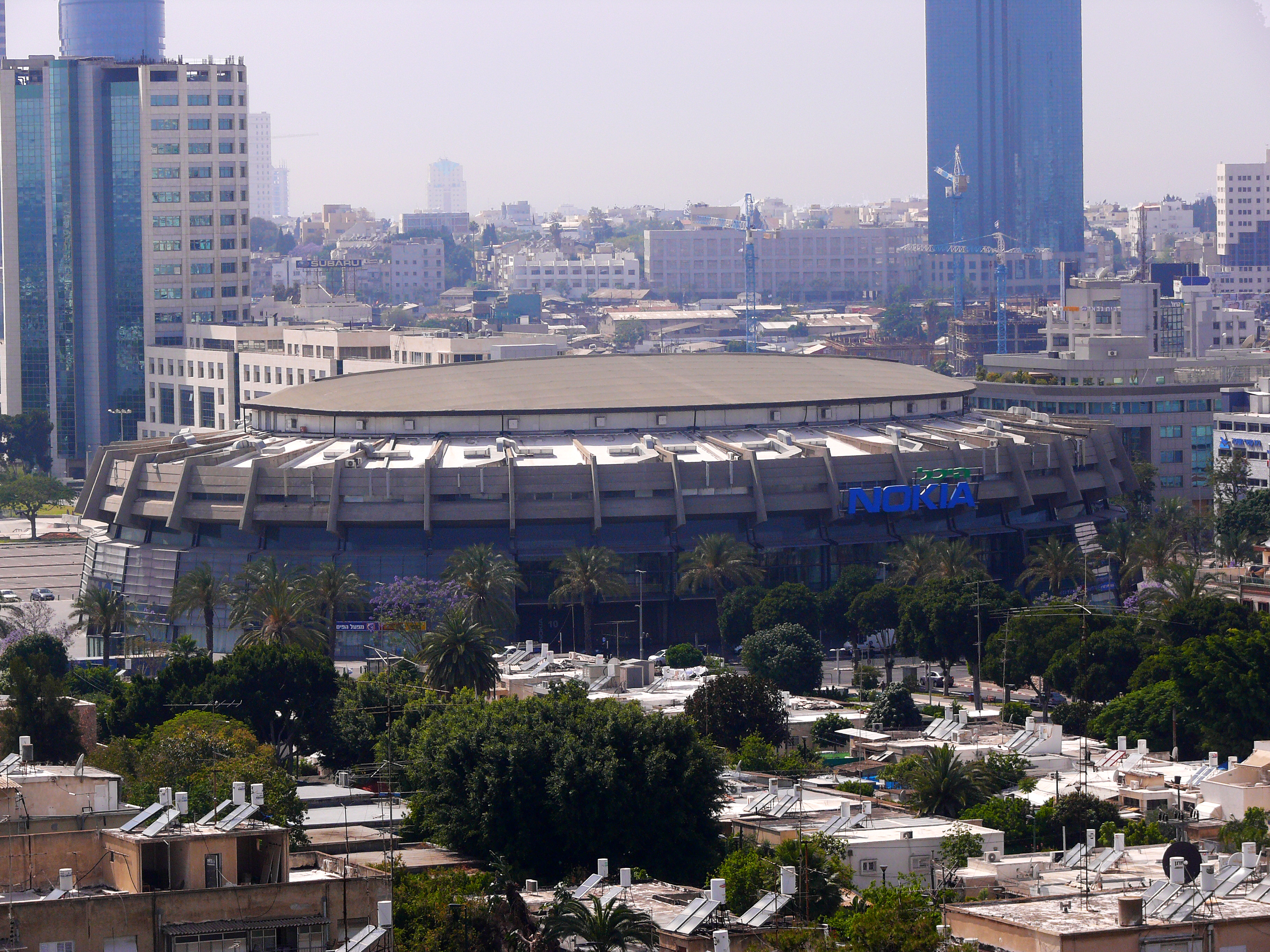 Nokia Arena (foremerly Yad Eliyaho Arena), Tel Aviv, Israel